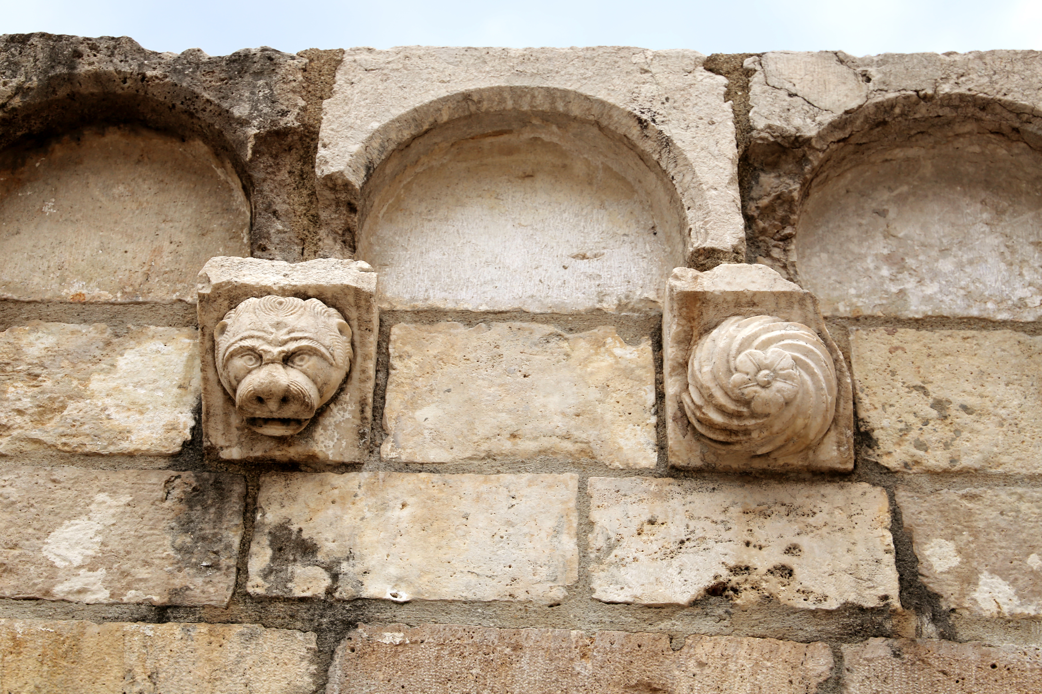 Fontana Fraterna